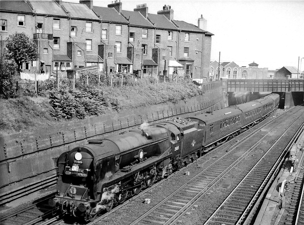 Down 'Atlantic Coast Express' accelerating away from Clapham Junction. View northward, towards London: ex-LSW Waterloo - the West main line, with the ex-LB&SC lines from Victoria to East Croydon, Brighton, etc. curving away on the right. On Summer Saturdays the 'ACE' ran in several portions: the 11.00 from Waterloo going to Ilfracombe/Torrington (due 16.38/16.30). The locomotive here is rebuilt Bulleid 'Merchant Navy' 4-6-2 No. 35015 'Rotterdam Lloyd' (built 3/45 as No. 21C15, renumbered 6/49, rebuilt 6/58, withdrawn 2/64).